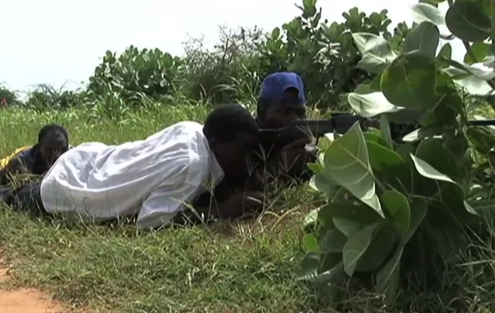 Ganda Koy pro-government Militia members training in Sevare, Mali.